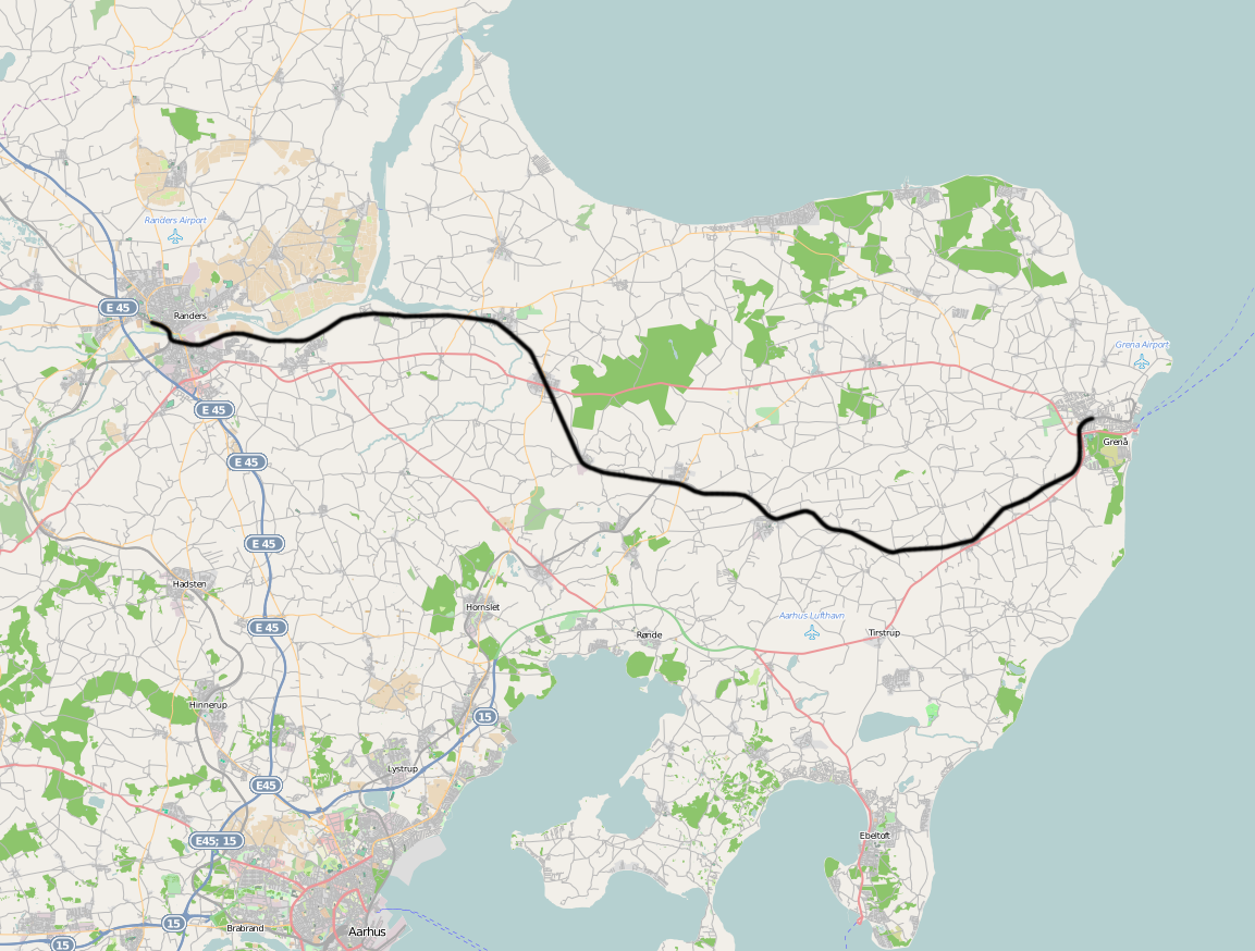 Railway line Randers - Grenaa